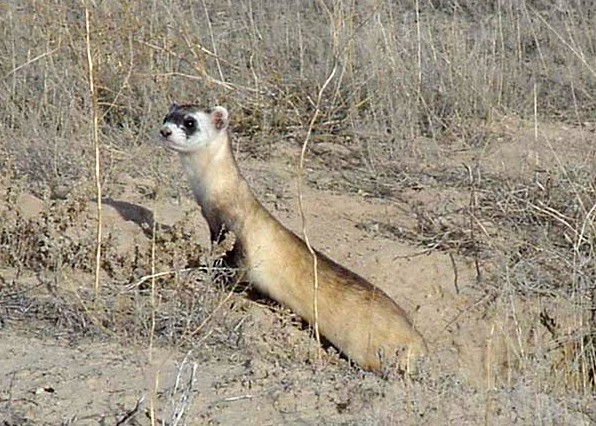 Black-footed ferret (Mustela nigripes); Coyote Basin; Utah County; electronic; WOE1; WO-Electronic-1)